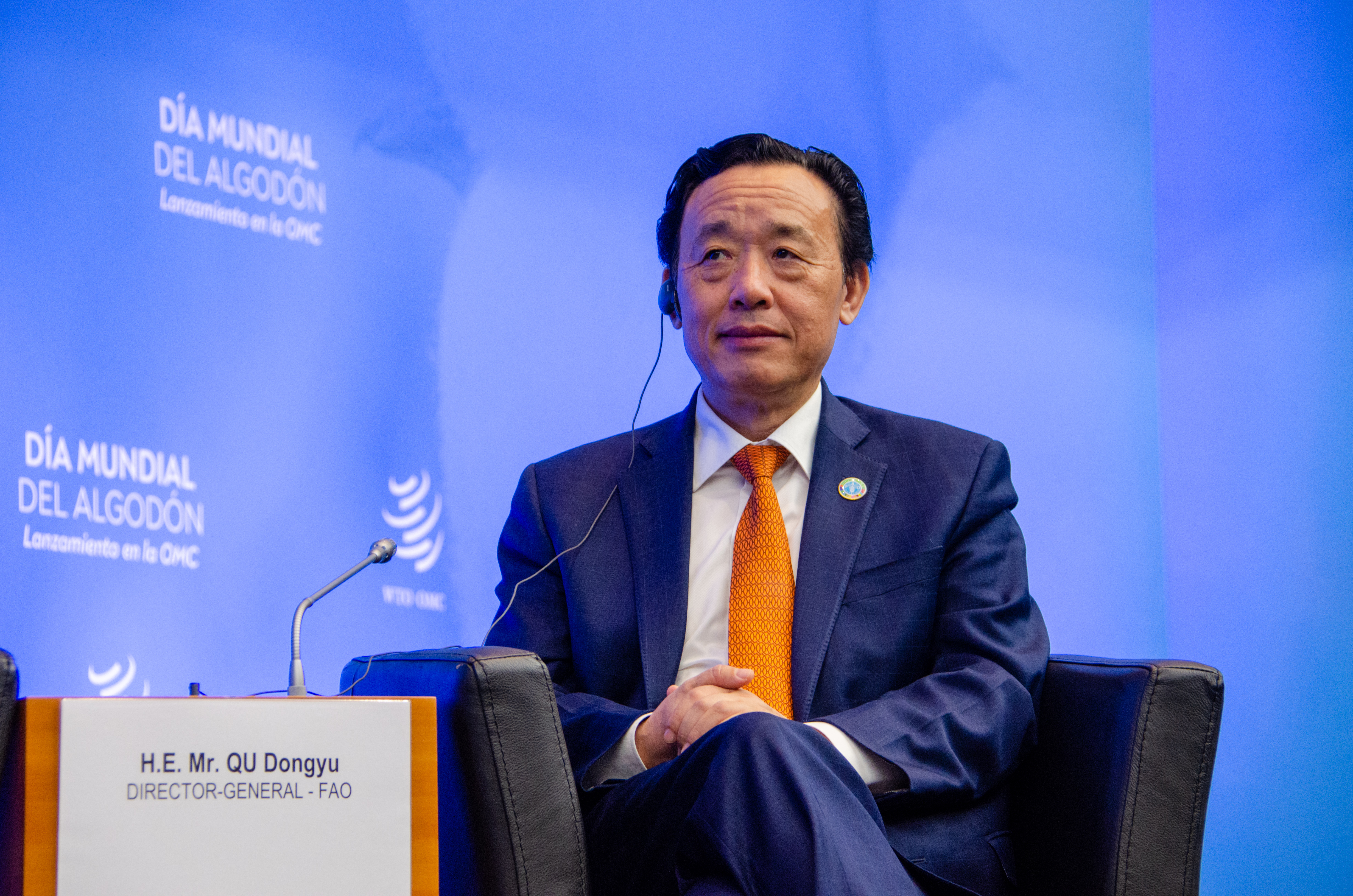 Photos from the World Cotton Day photo gallery may be reproduced provided attribution is given to the WTO and the WTO is informed. Photos:© WTO/ Roxana Paraschiv